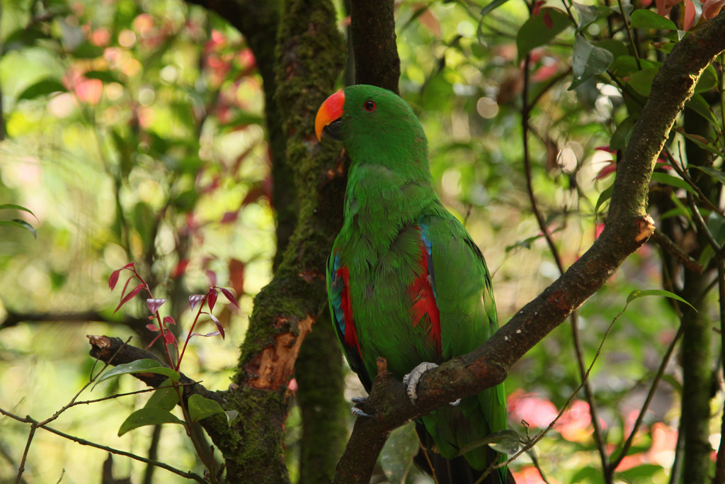 A male Eclectus Parrot perching in a tree at Taman Safari, Cisarua, Indonesia.